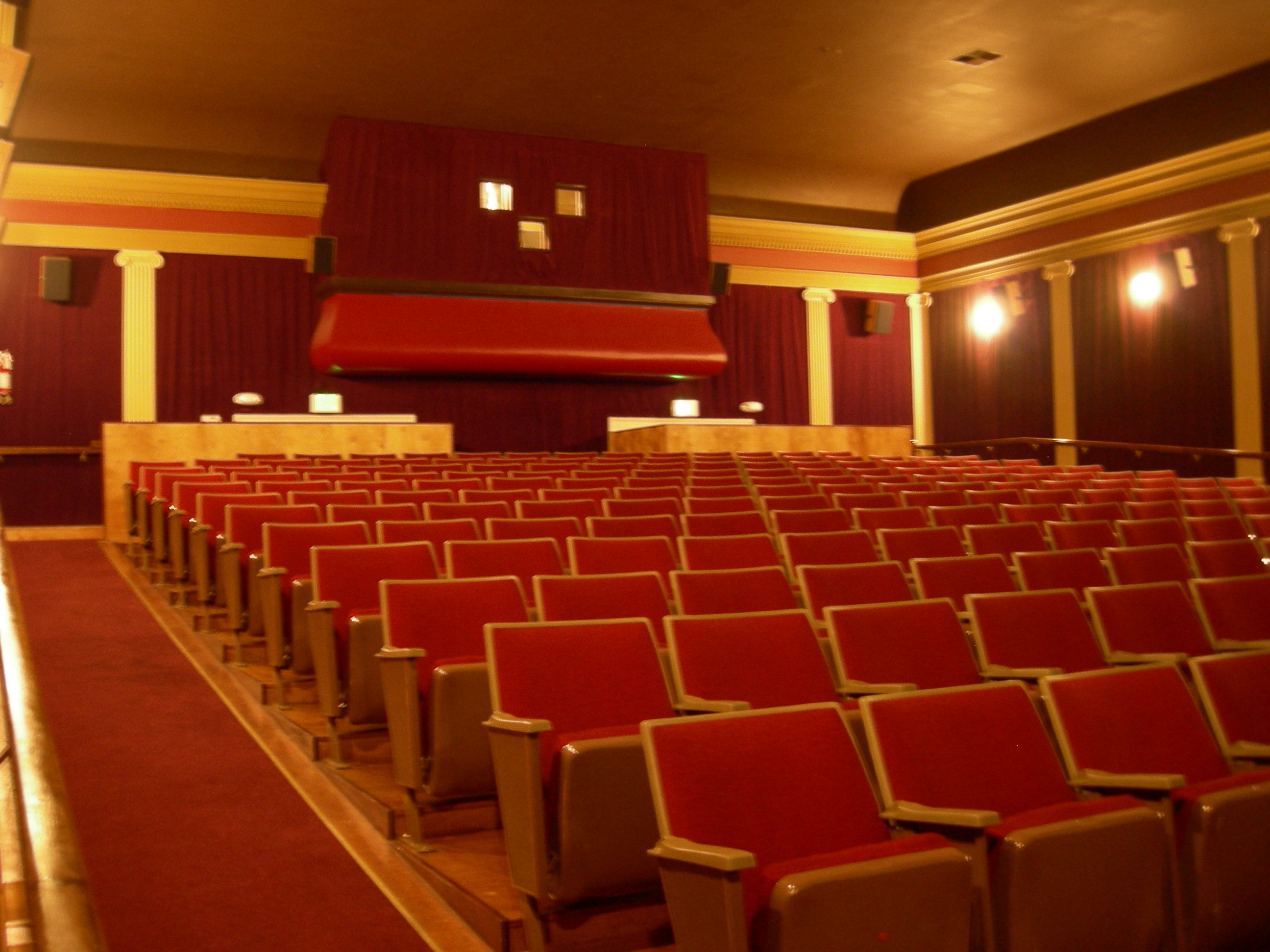 Main auditorium, Columbia City Cinema, Columbia City neighborhood, Seattle, Washington.